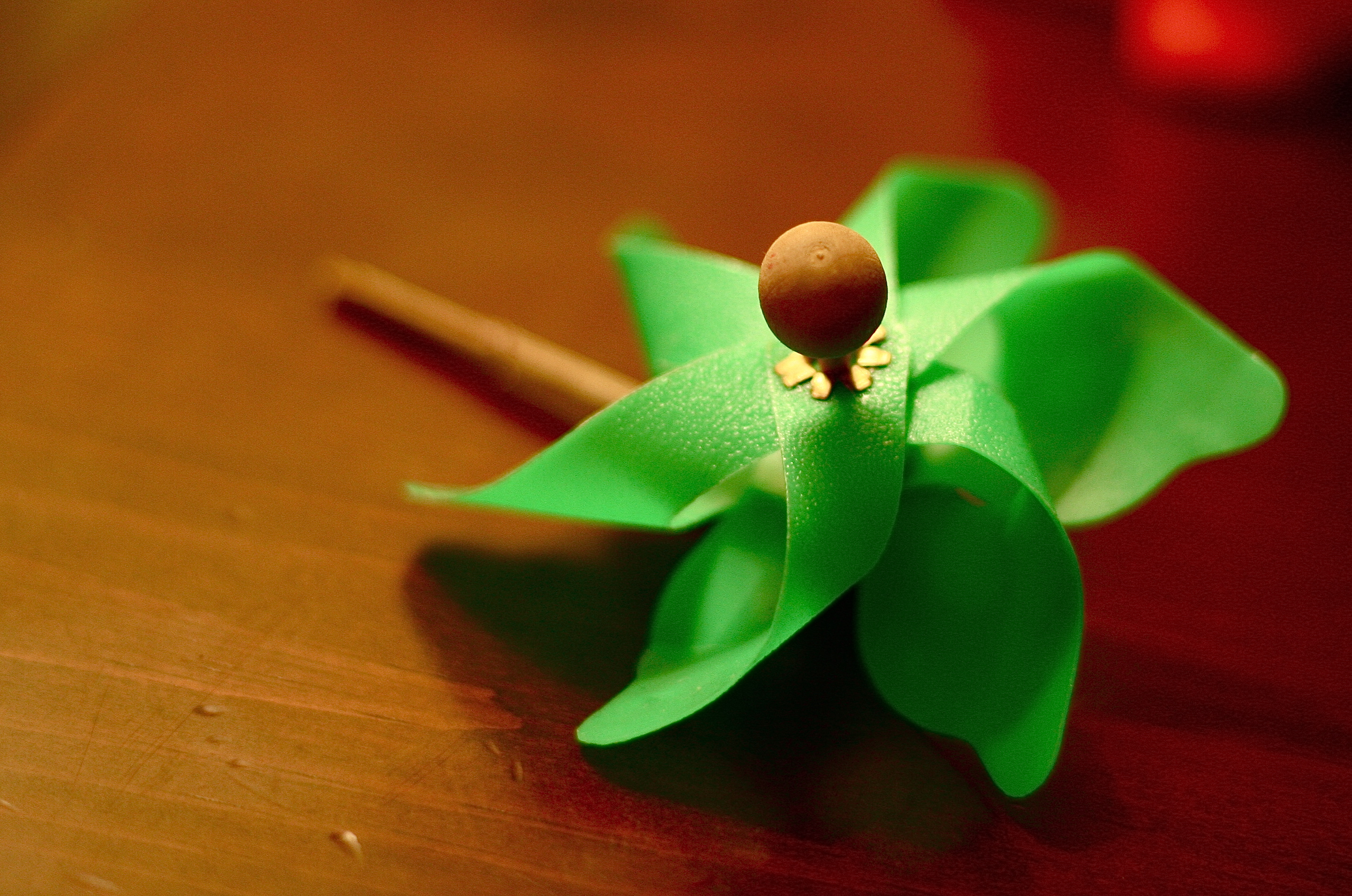 simple green plastic pinwheel